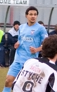 James Meredith playing for York City against Forest Green Rovers at The New Lawn, Nailsworth on 6 March 2010